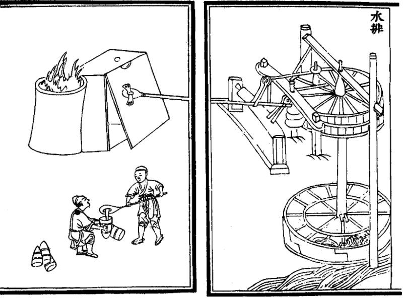 This medieval printed illustration depicts waterwheels powering the bellows of a blast furnace in creating cast iron. This illustration is taken from the 14th century treatise Nong Shu, written by Wang Zhen in 1313 AD, during the Chinese Yuan Dynasty.